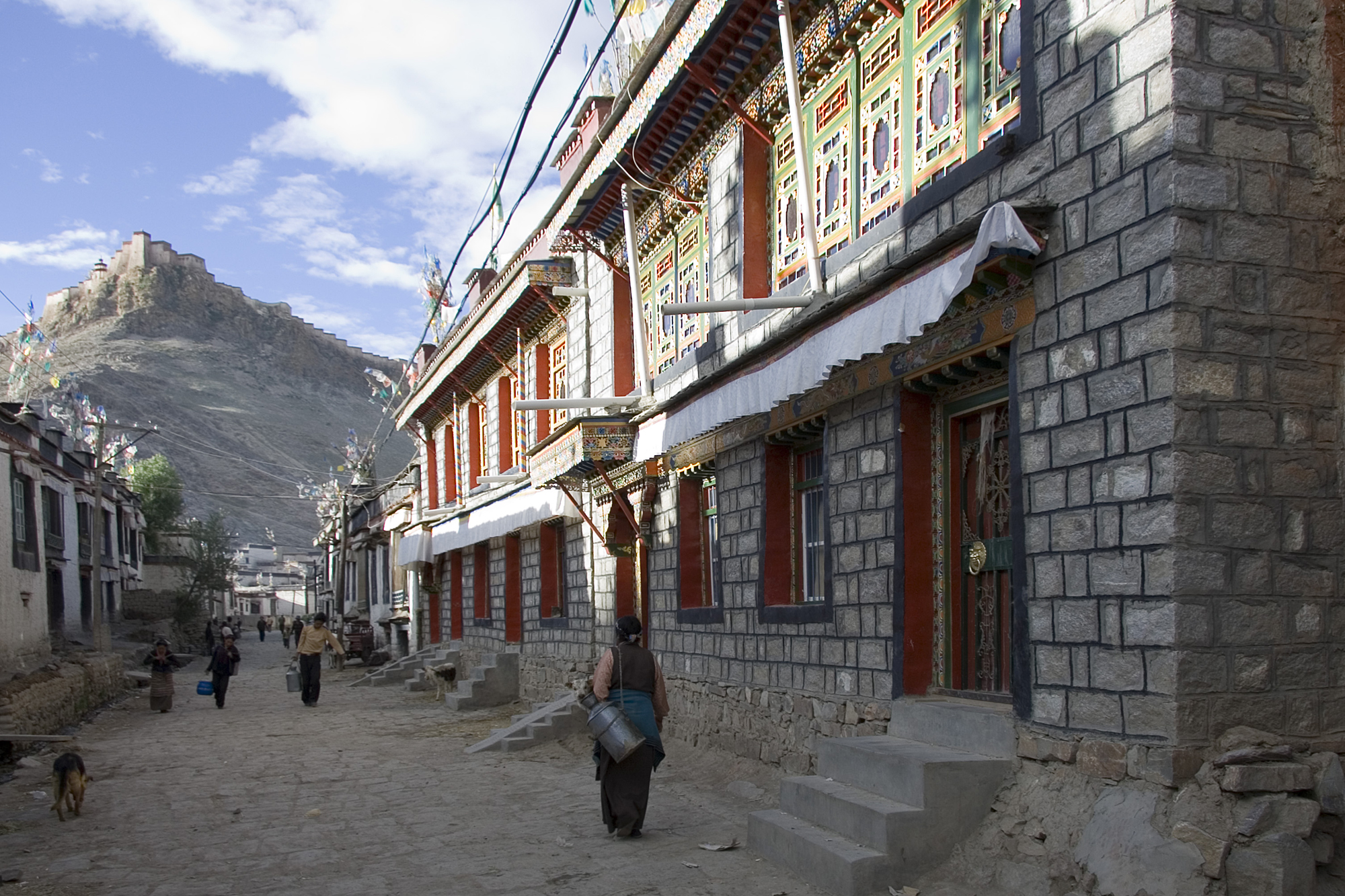 Gyantse Old Town. Gyantse is the fourth largest city in Tibet.